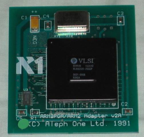 Aleph1 20MHz ARM3.An early ARM3 upgrade for the Archimedes range. In its review of this upgrade Risc User magazine estimated that it was between 2.5 and 5 times faster than an ARM2 CPU and posed the question ARM3 or Floating Point Co-processor, it is unnecessary to add that users went ARM3 and very few Floating Point Co-processors (which only worked with the ARM2) were sold in comparision.